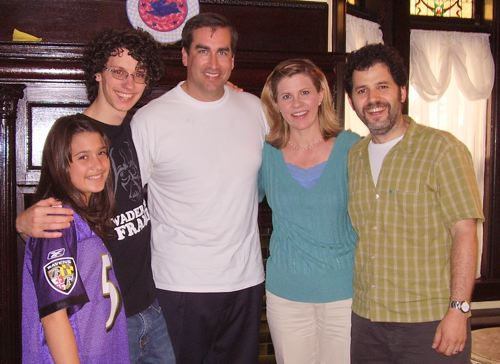 Michael Shapiro with the cast of Family Values.